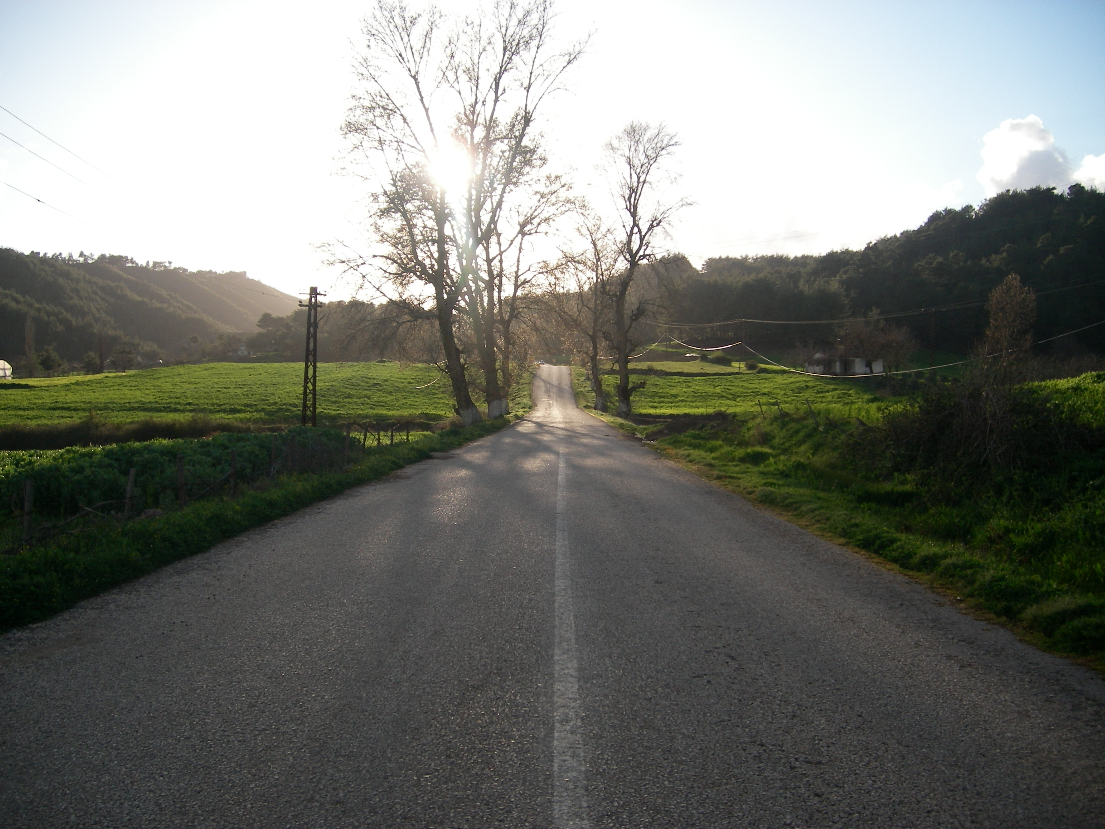 Syrian bordergate road in Yayladağı (4 km to borderline).